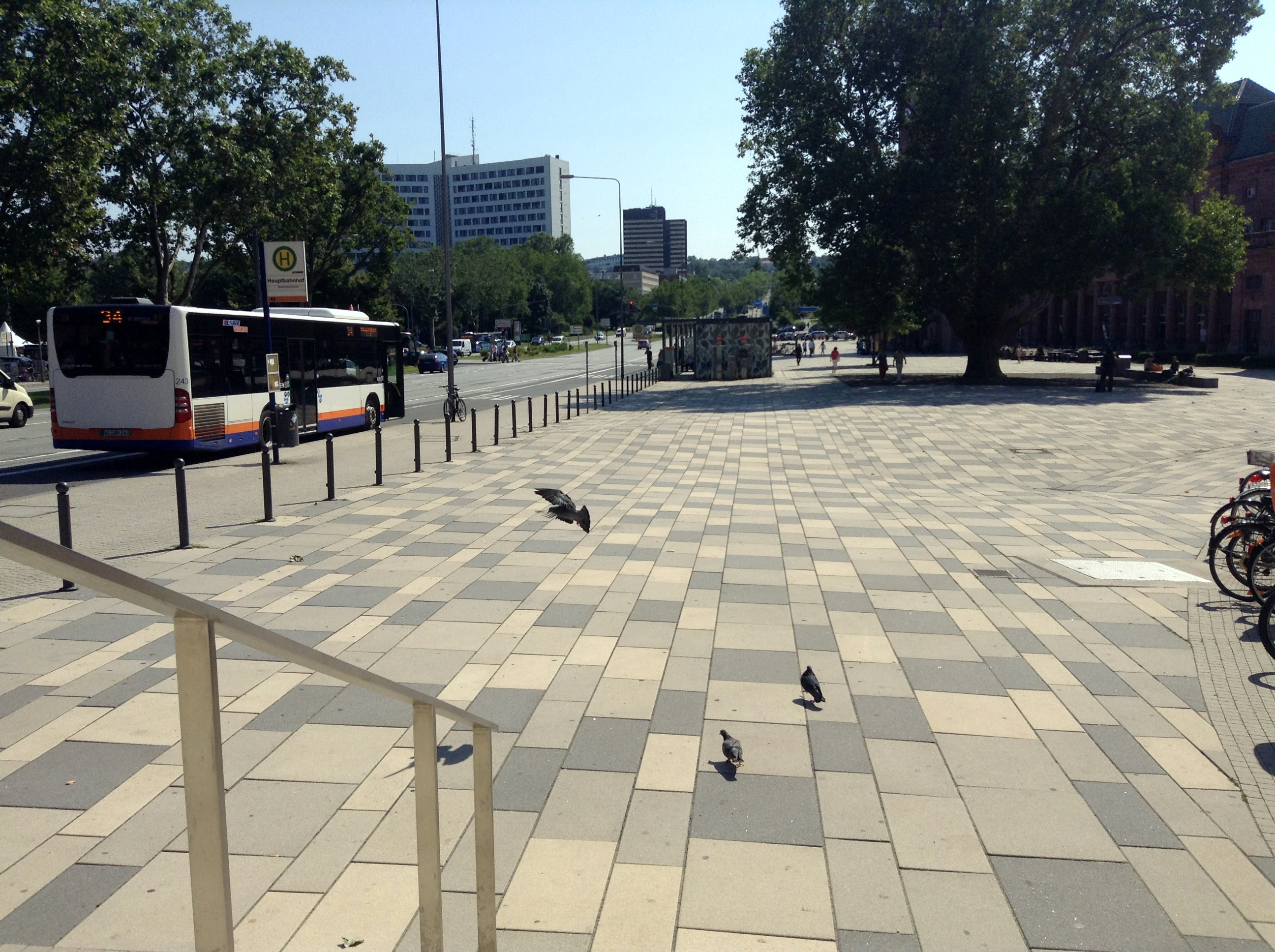 Sation square in Wiesbaden, Germany